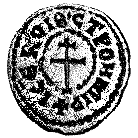 Bitmapped image of the Seal of Strojimir